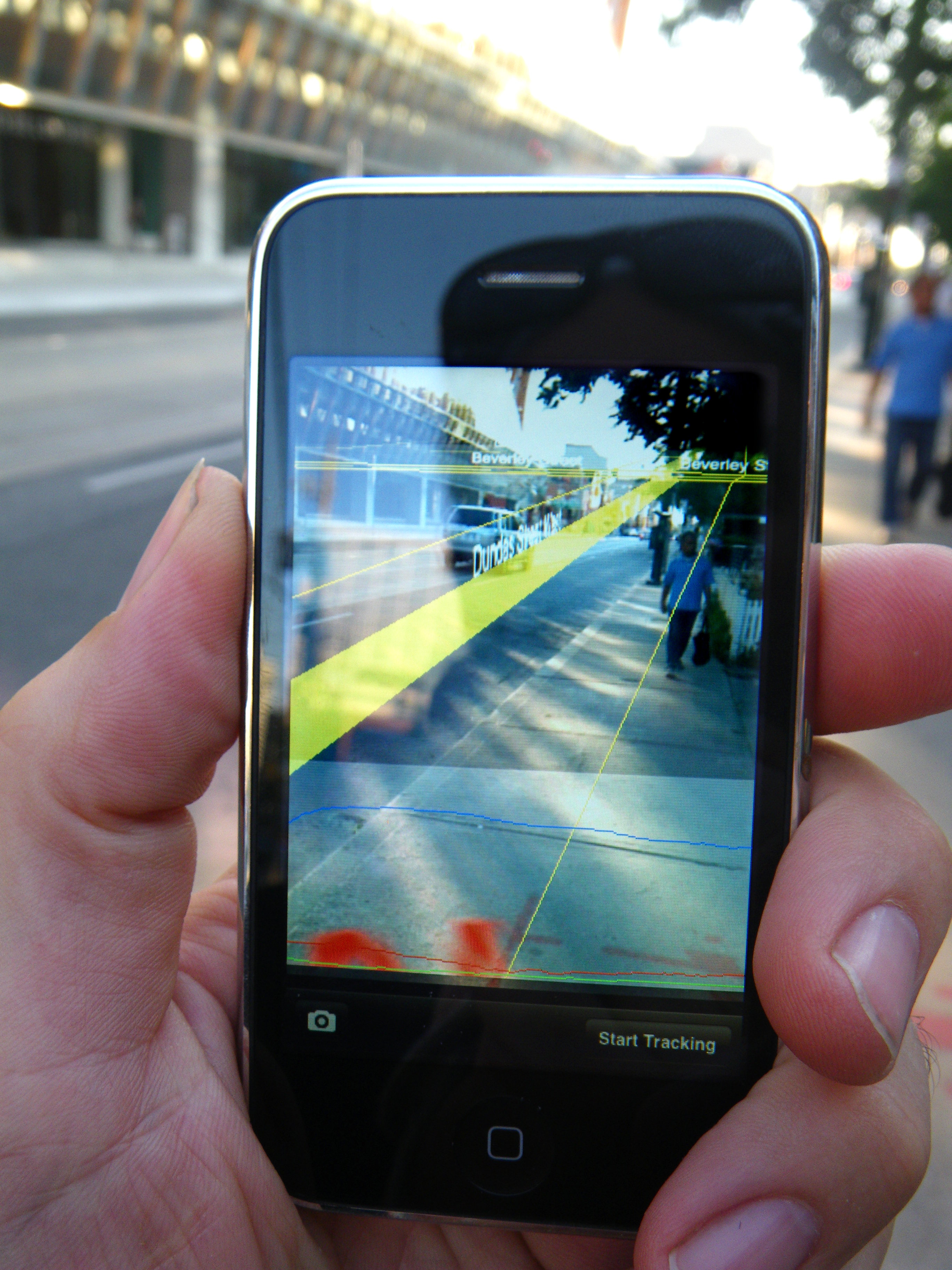 Mediated Reality running on Apple iPhone